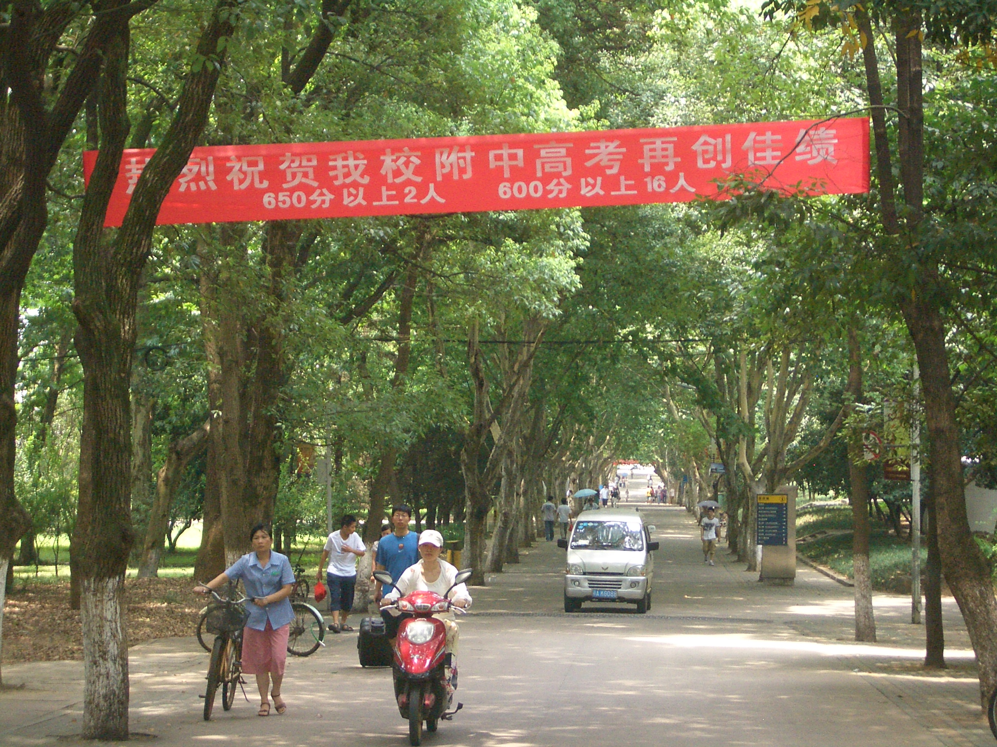 A typical leafy alley on the Huazhong Technological University campus. The red banner praises the 18 local high school students who got highest scores in the national Gaokao examination